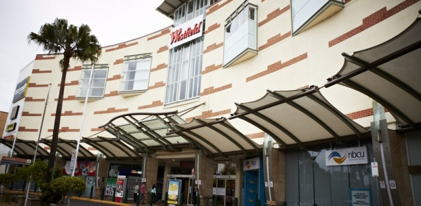 Warringah Mall Shopping Center